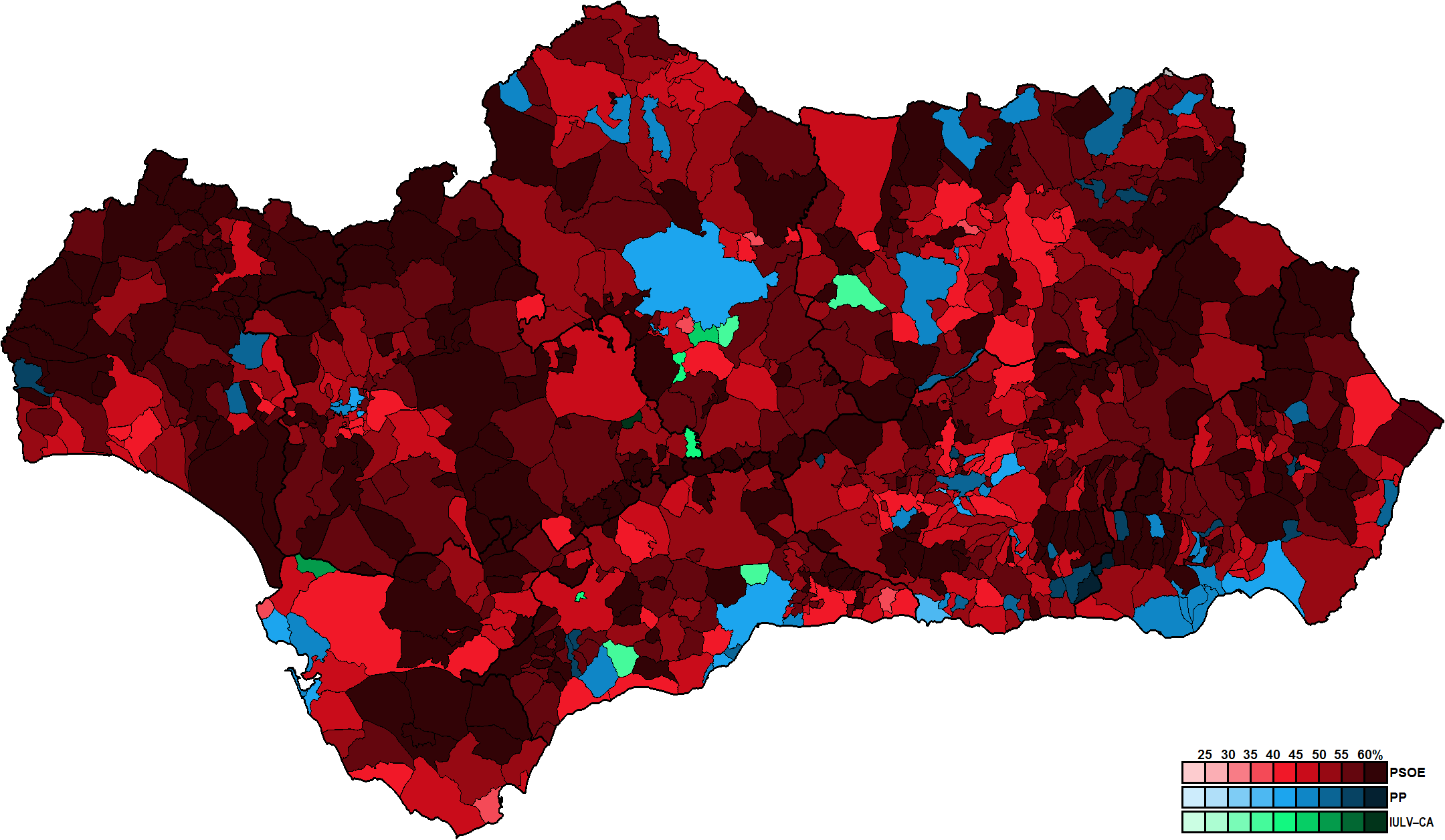 Most-voted party in Andalusia municipalities, showing vote share obtained, in the Spanish general election, 1996.